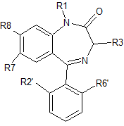 Common R group positions of Benzodiazepines